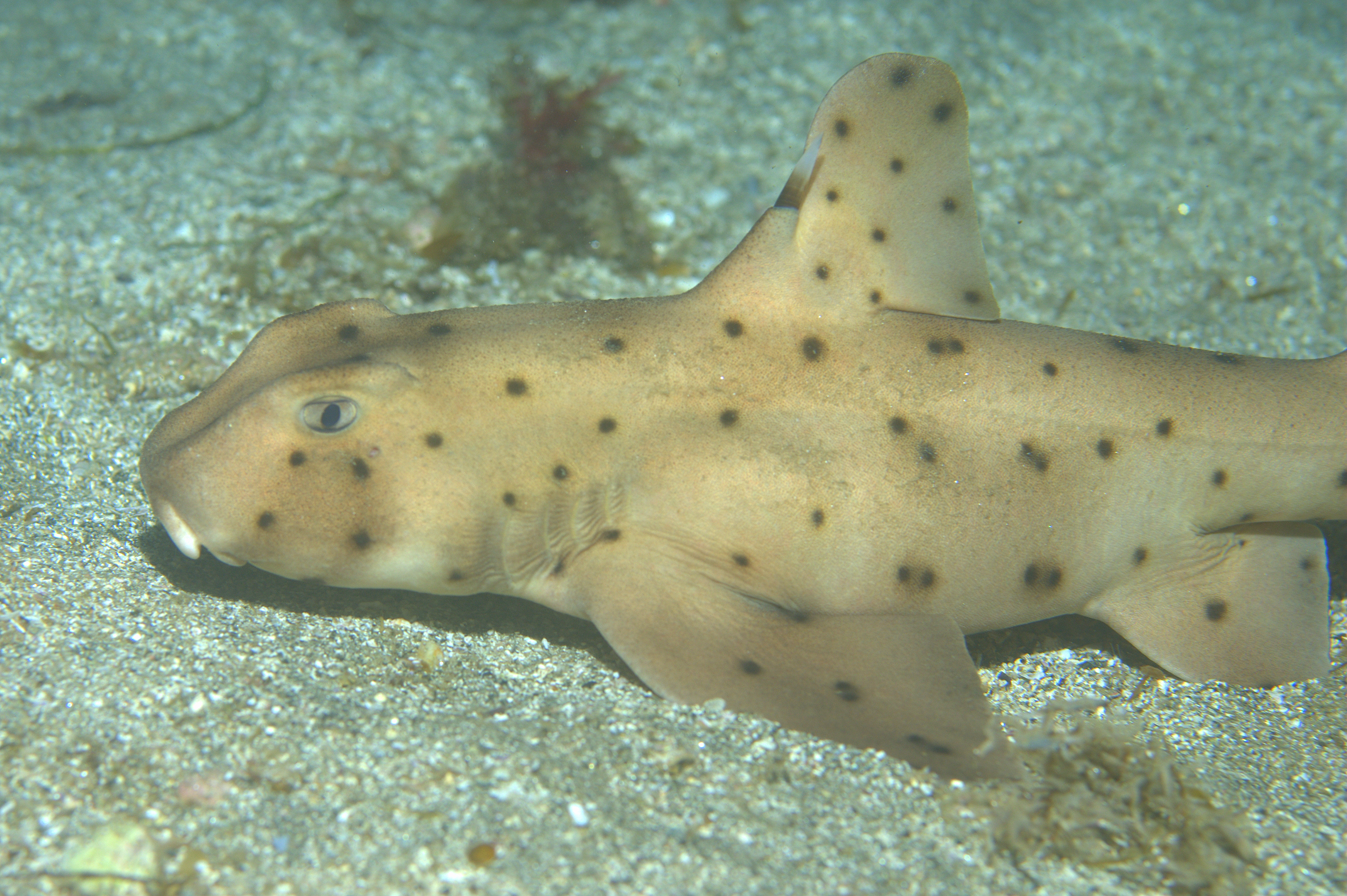 Horn shark (Heterodontus francisci) off Santa Catalina, California, USA